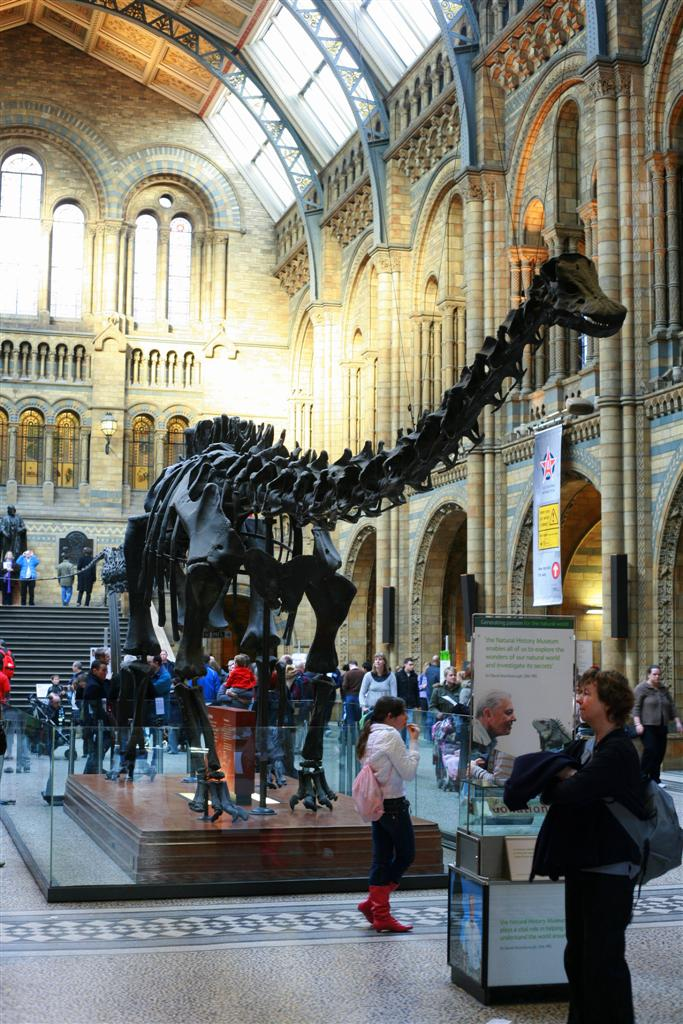 Natural History Museum, London